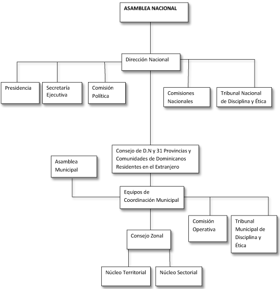 Organizational or Country Alliance party structure (Dominican Republic)